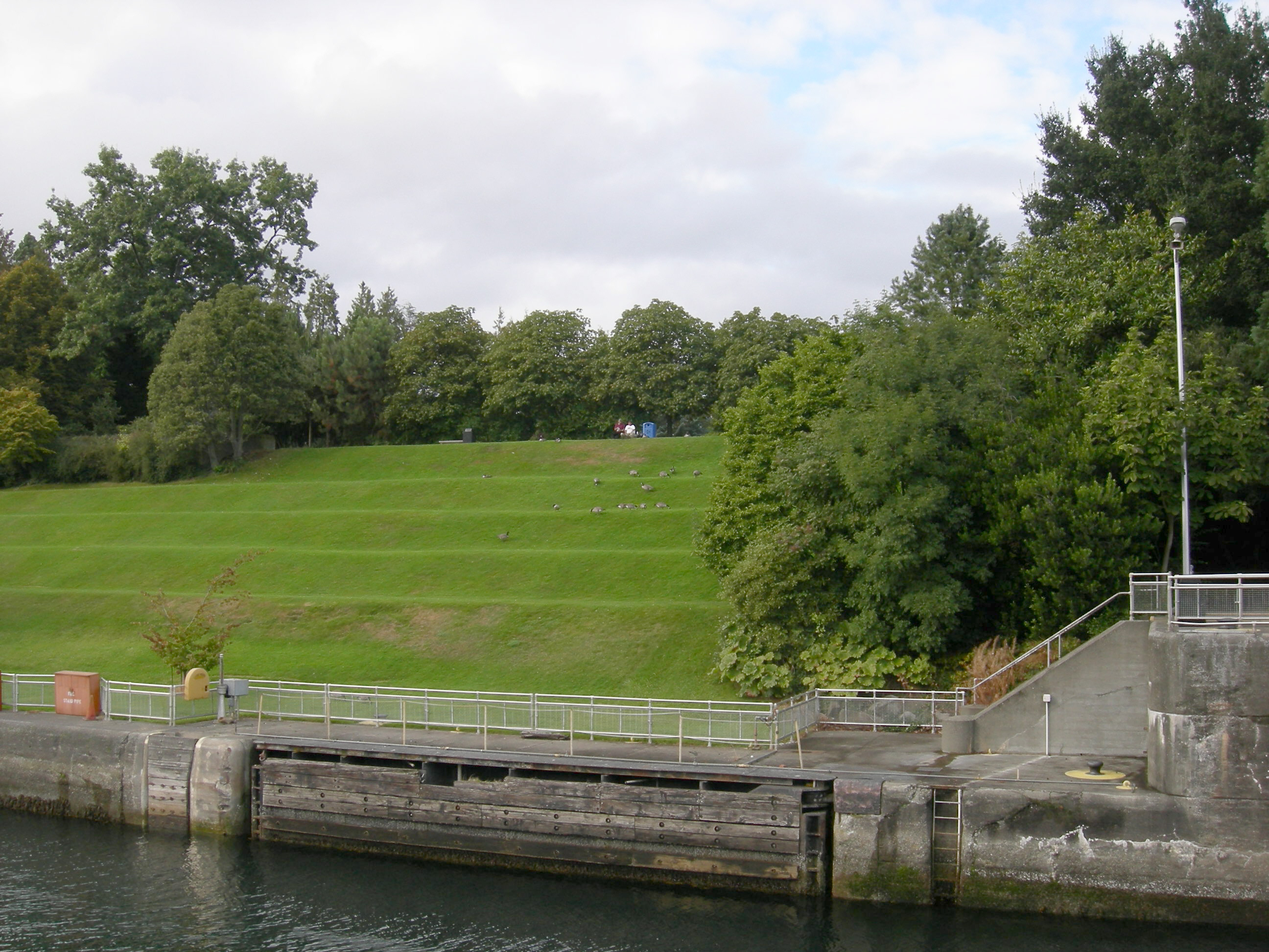 Carl S. English Gardens, Hiram M. Chittenden Locks, Seattle, Washington, USA.